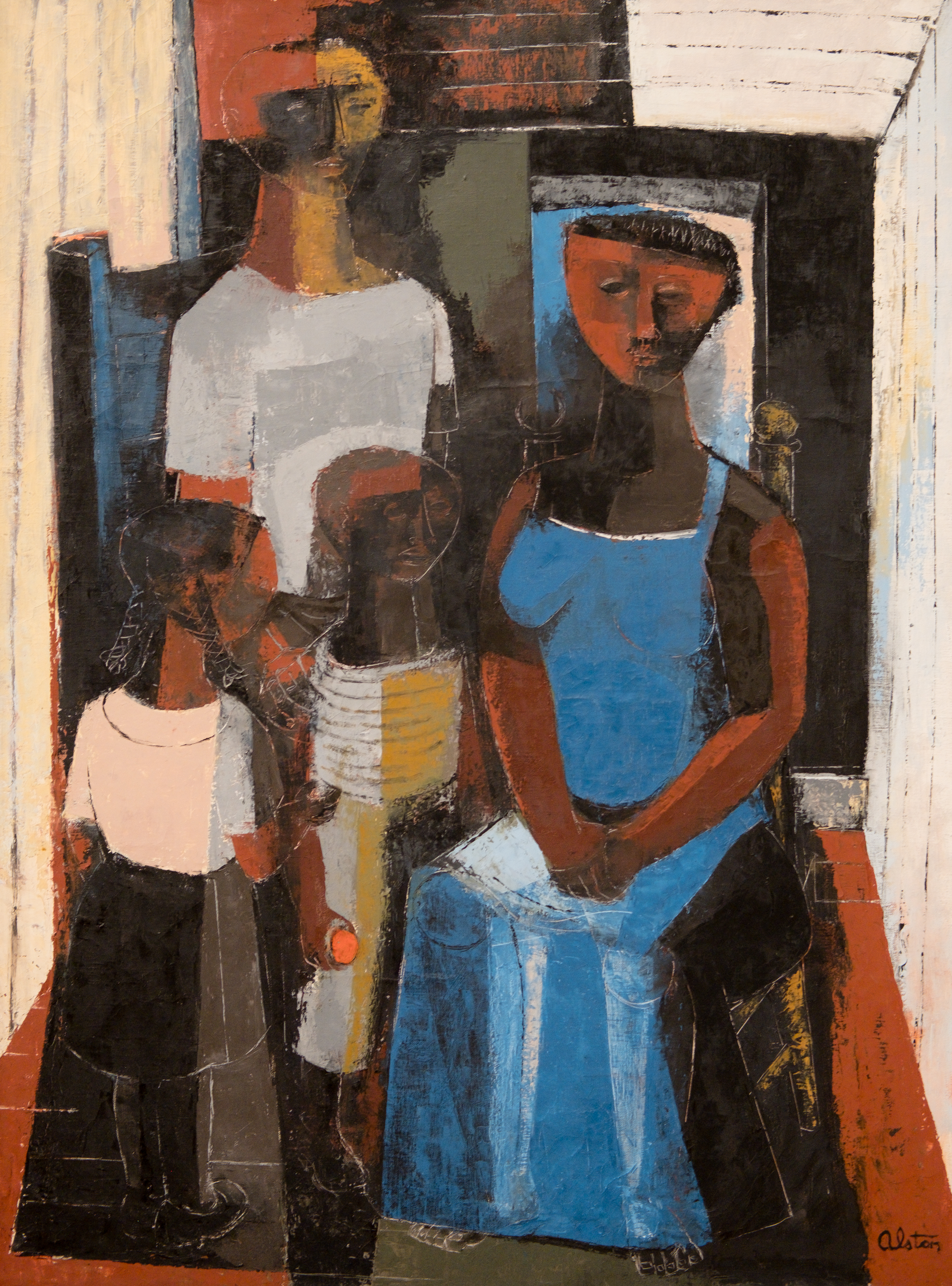 Charles Henry Alston, The Family, 1955 1/15/18 #whitneymuseum